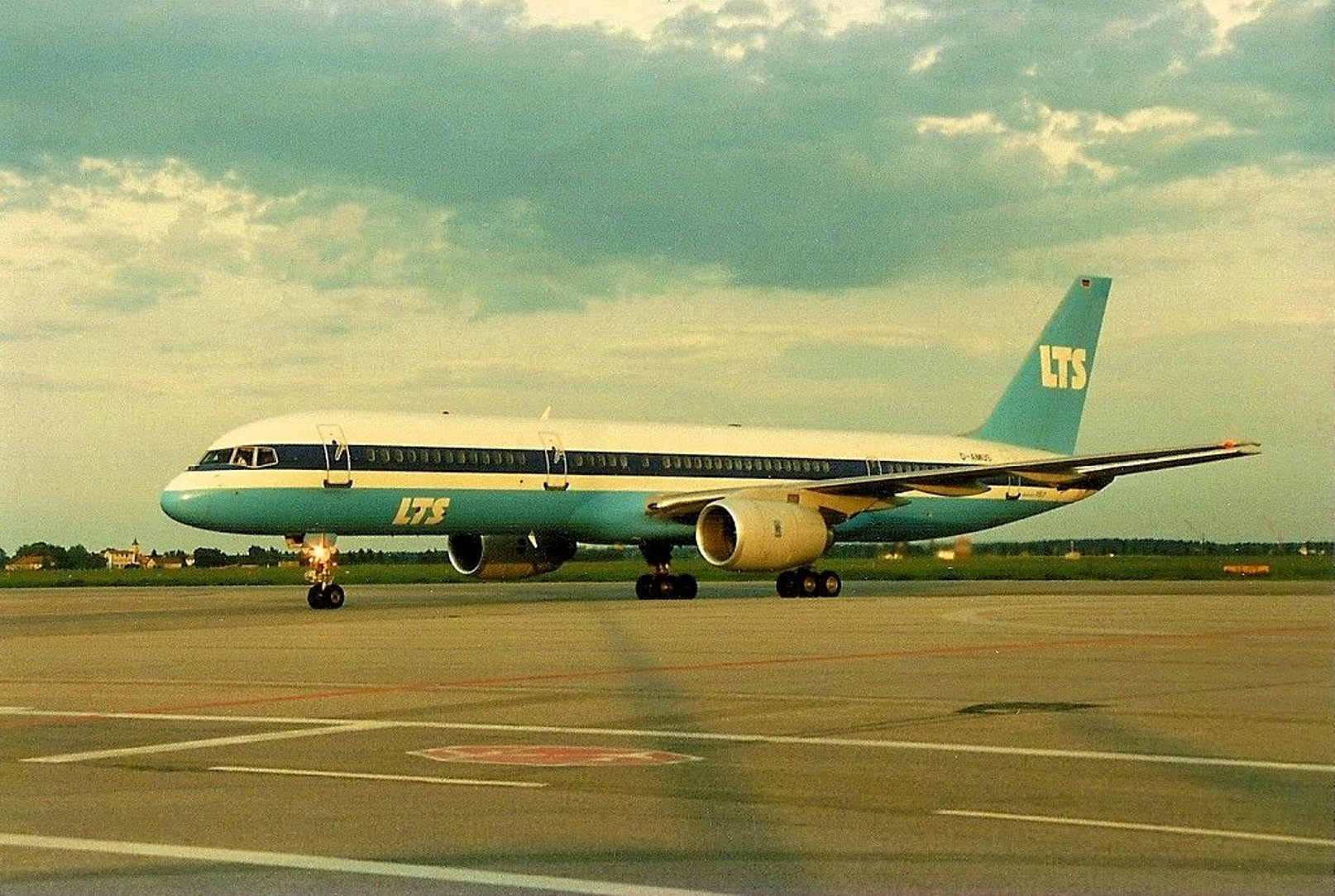 LTS – Lufttransport Süd Boeing 757 D-AMUS Munich Riem 1986